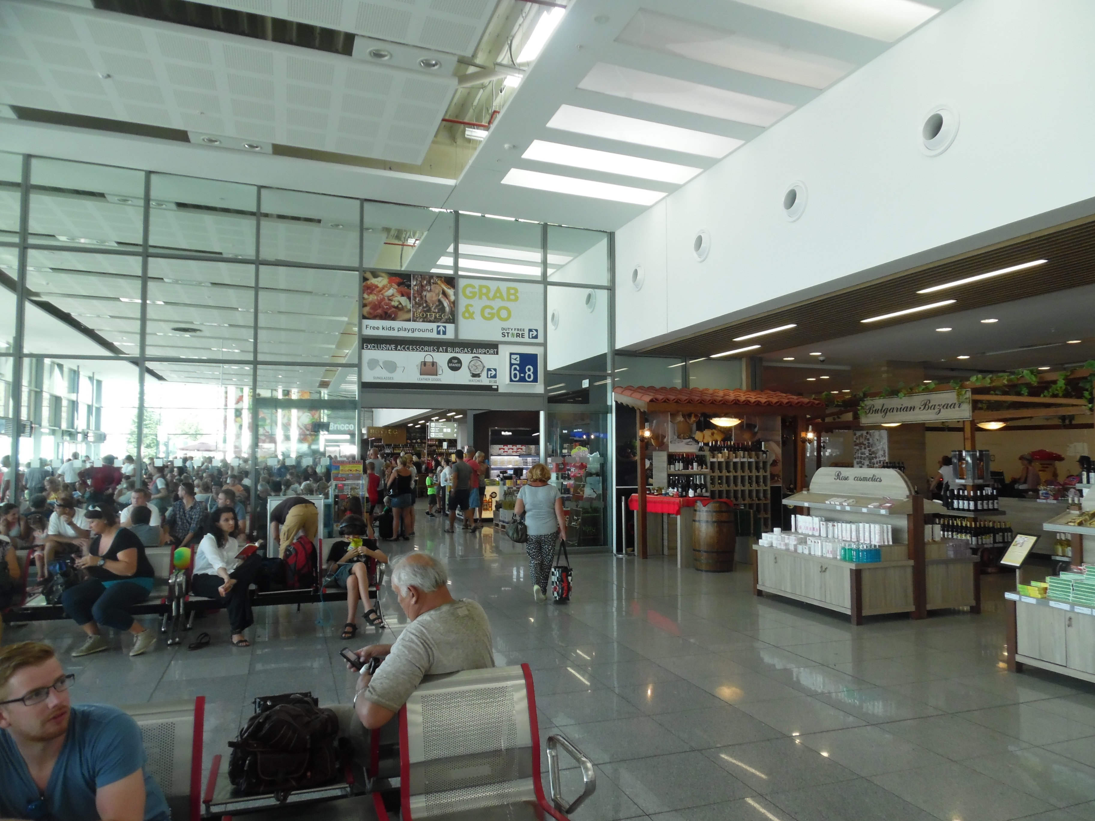 Burgas Airport, the hall of departures, july 2016